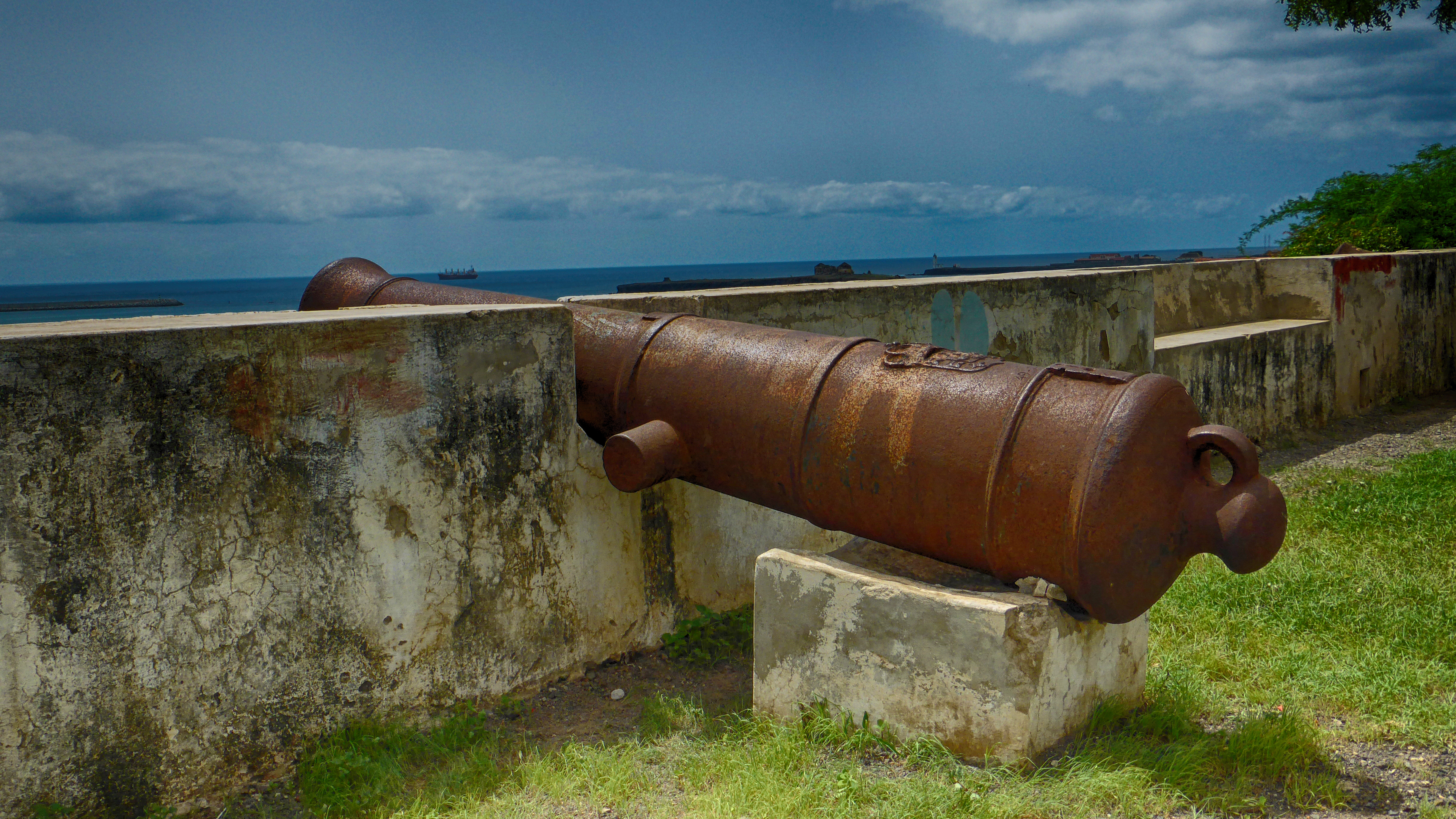 Portuguese cannon barrel, with coat of arms, at Praia, Cape Verde